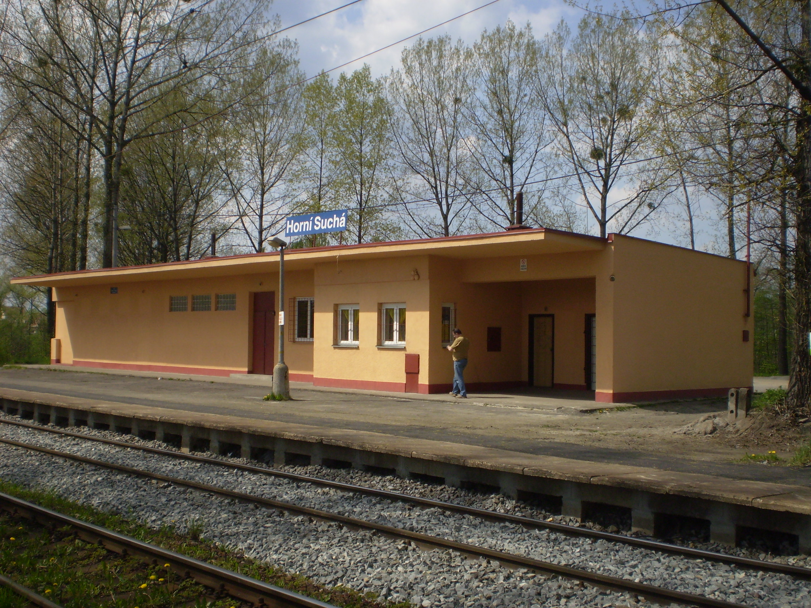 Railway station in Horní Suchá (Sucha Górna)